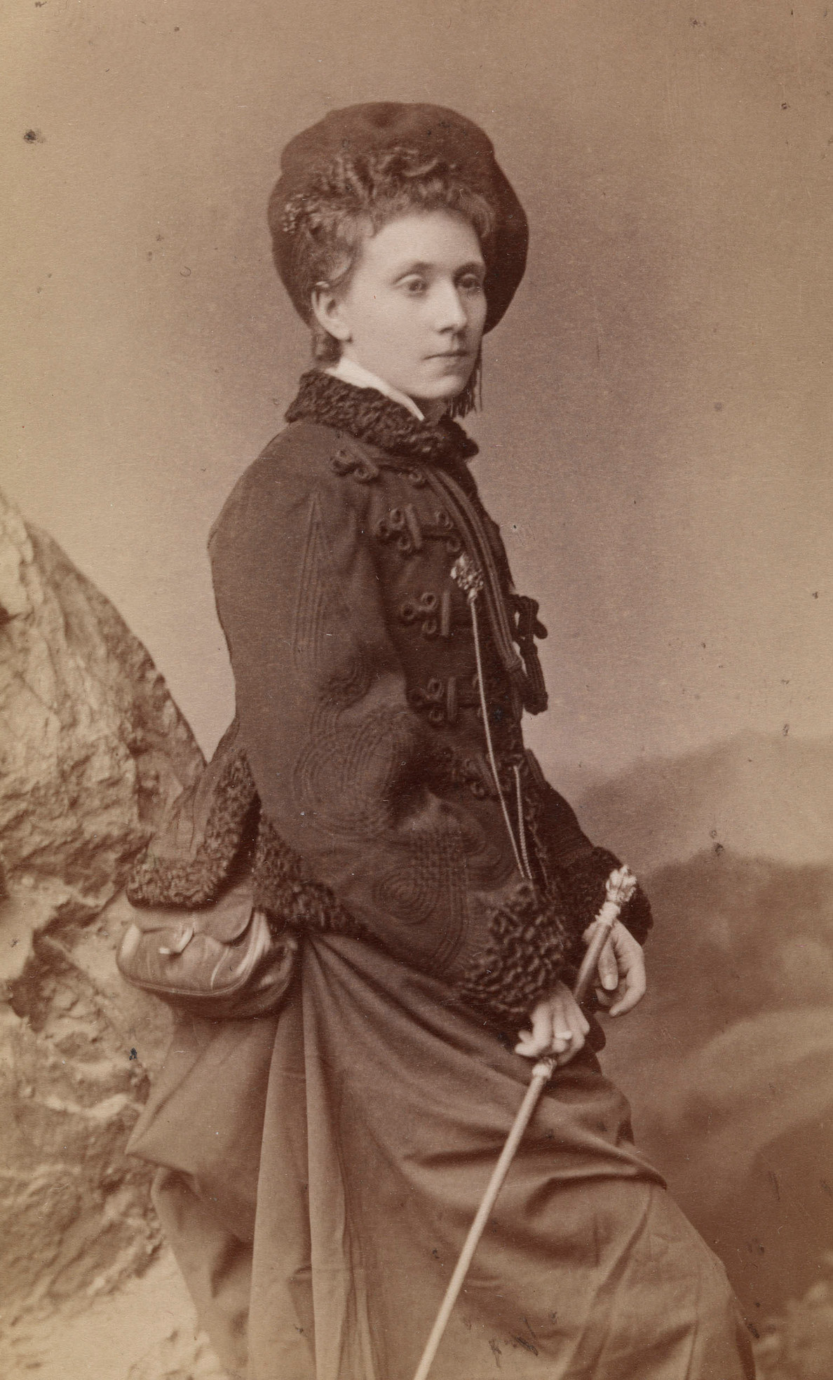 Infanta Maria das Neves of Portugal, 1877